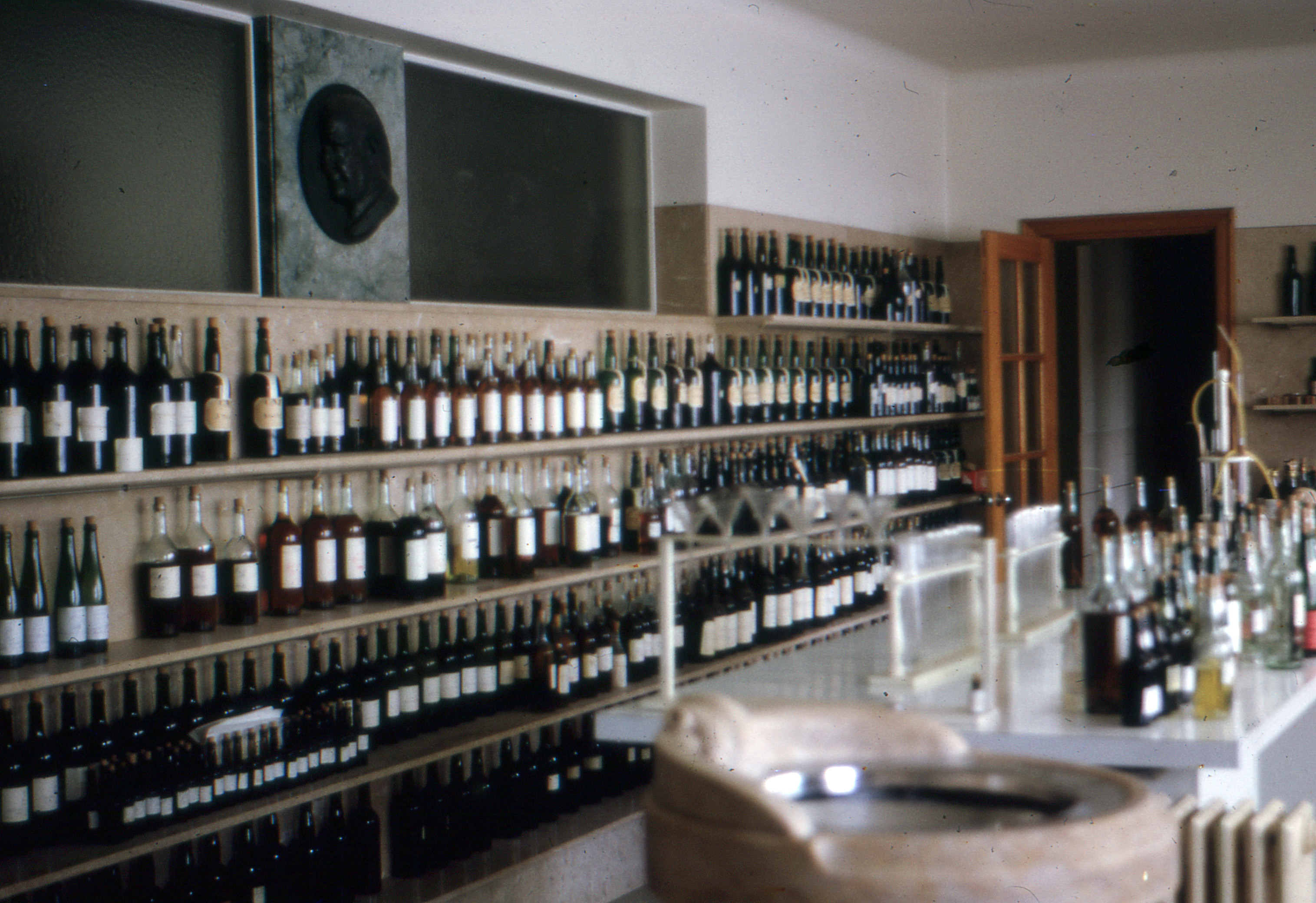 Œnology laboratory in the cellars Ferreira.